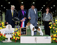 2013 Best in Show Winner, CRISPY LEGACY, Fox Terriers (Wire)